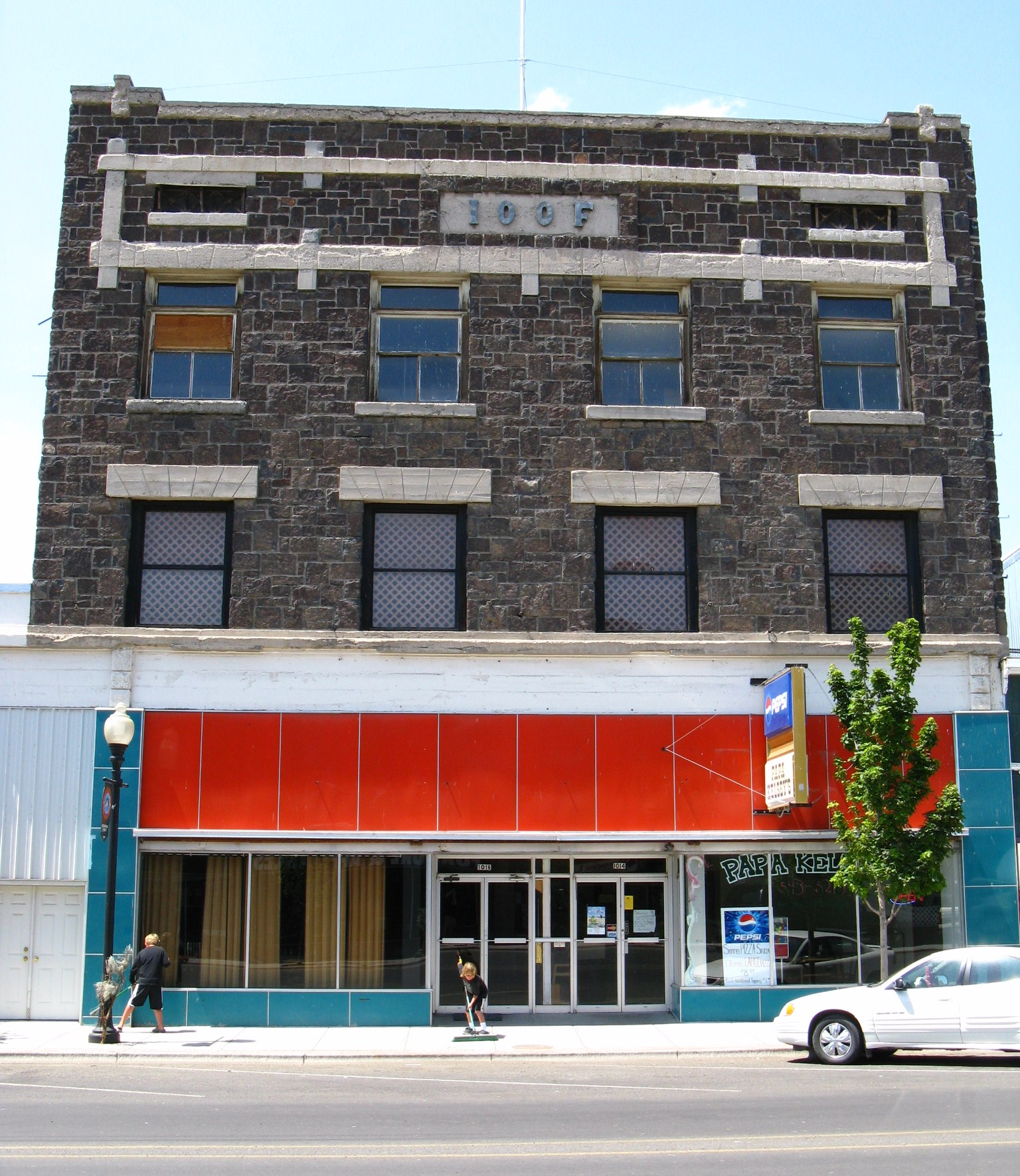 I.O.O.F. Building, Buhl, Idaho. This building is listed on the National Register of Historic Places.